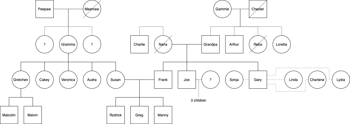 This is a family tree of the Heffley family from the Diary of a Wimpy Kid books. "The Wimpy Kid Do-it-Yourself Book" is not canon.